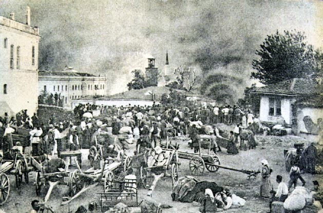 Refugees following the destruction of the Great Fire of Thessaloniki in 1917.